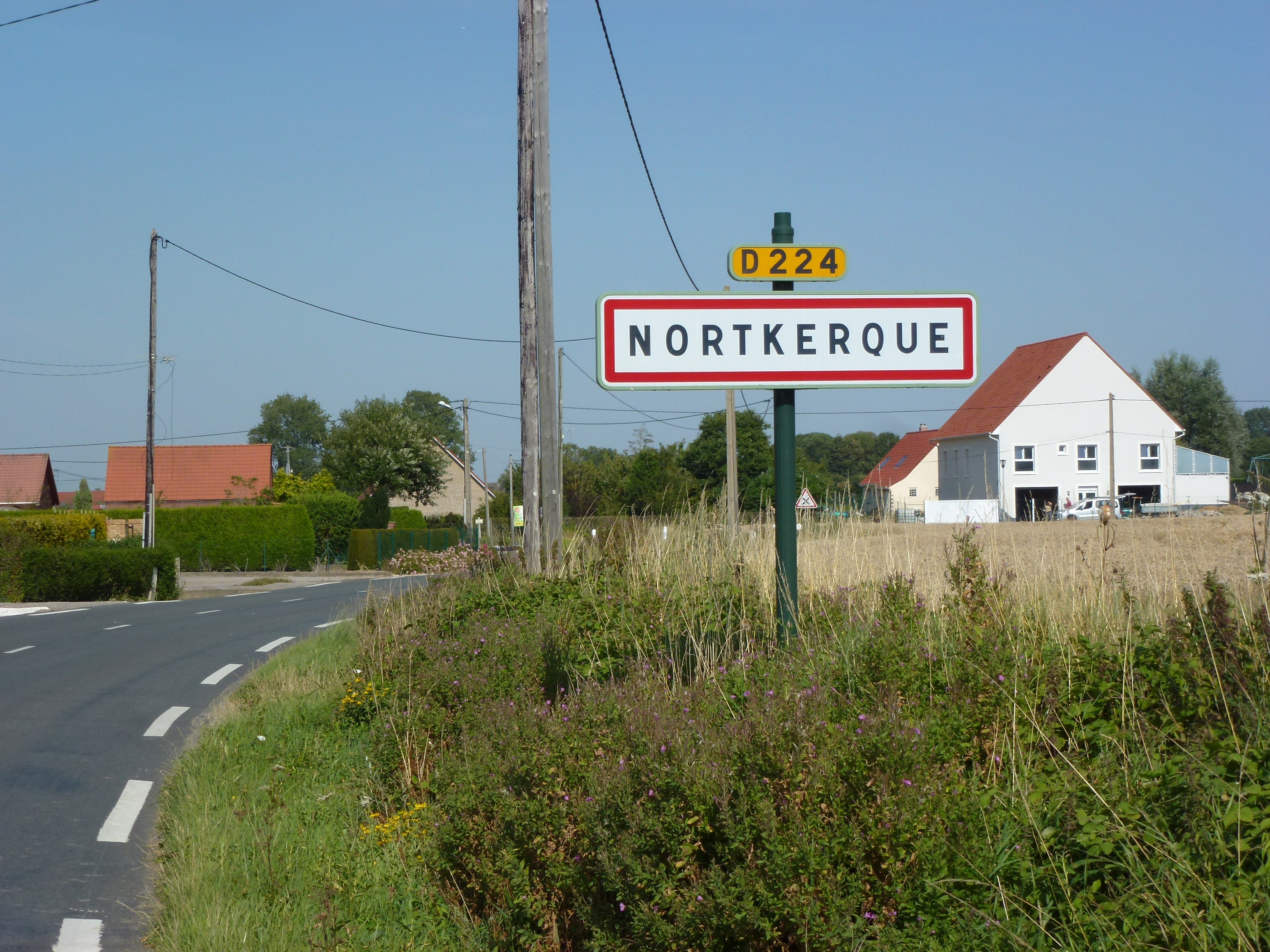 Nortkerque (Pas-de-Calais) city limit sign